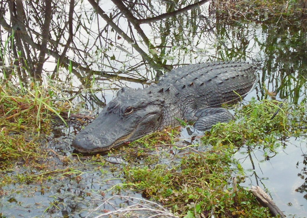 Digital photo taken by Marc Averette. Alligator on the Anhinga trail in the Florida Everglades